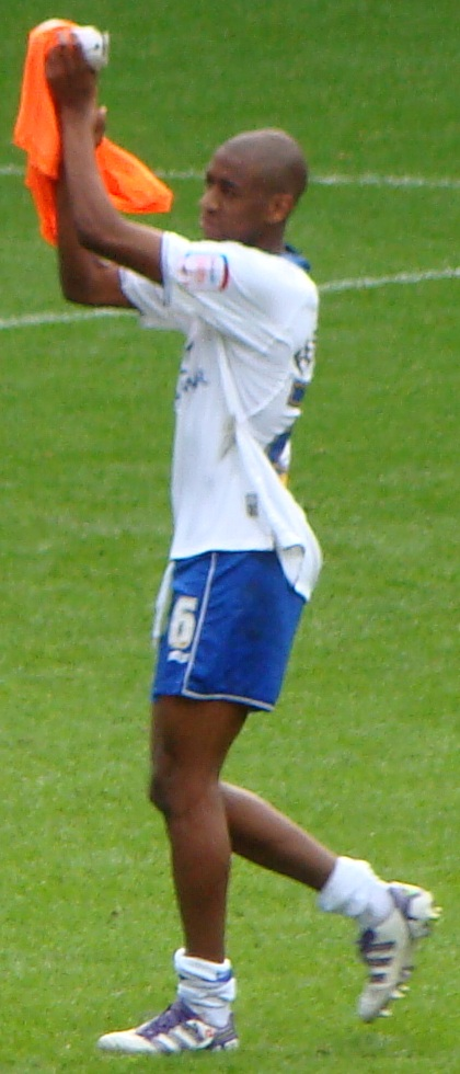 25/09/11 Cardiff V Leicester, Championship, Cardiff City Stadium, Cardiff, Wales [Image cropped from original at Flickr]